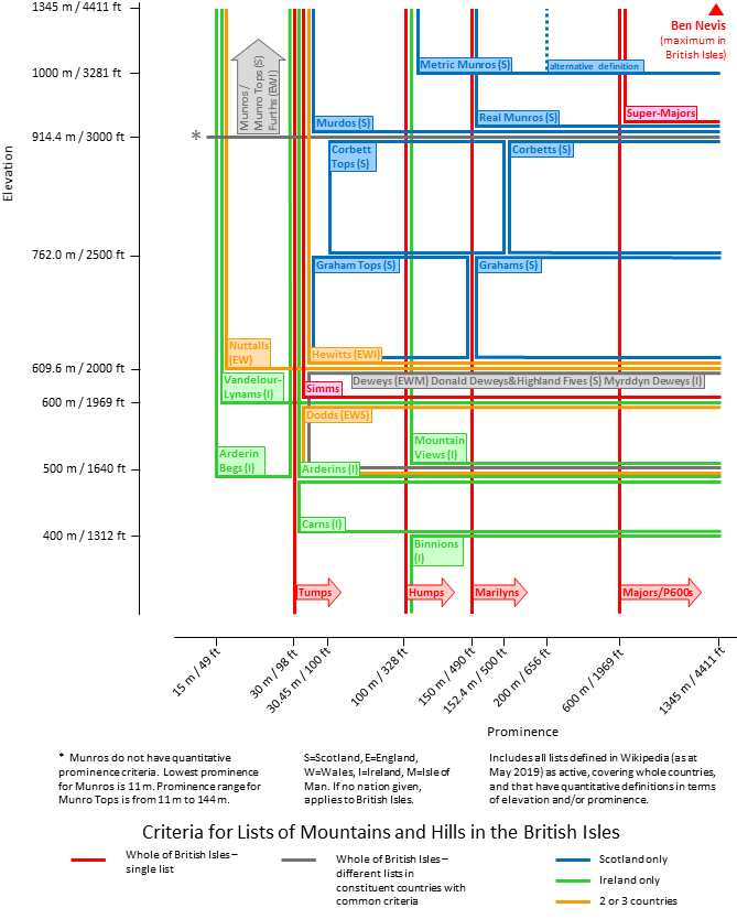 Diagram showing the elevation and prominence criteria used to define various classifications of mountains and hills in the British isles (improved version)